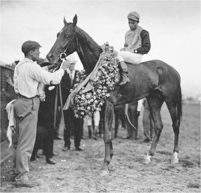 1903 Kentucky Derby winner Judge Himes after winning the 1903 Hawthorne Handicap in Chicago. Picture mislabeled as "Judge Hines."